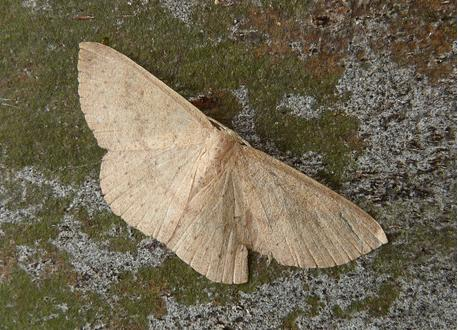 Anisodes obstataria (Walker, 1861), Black Mountain, Canberra, ACT, 30 November 2010 Note that generic placement for this species is not yet clear but Anisodes is the genus used in the current checklist.